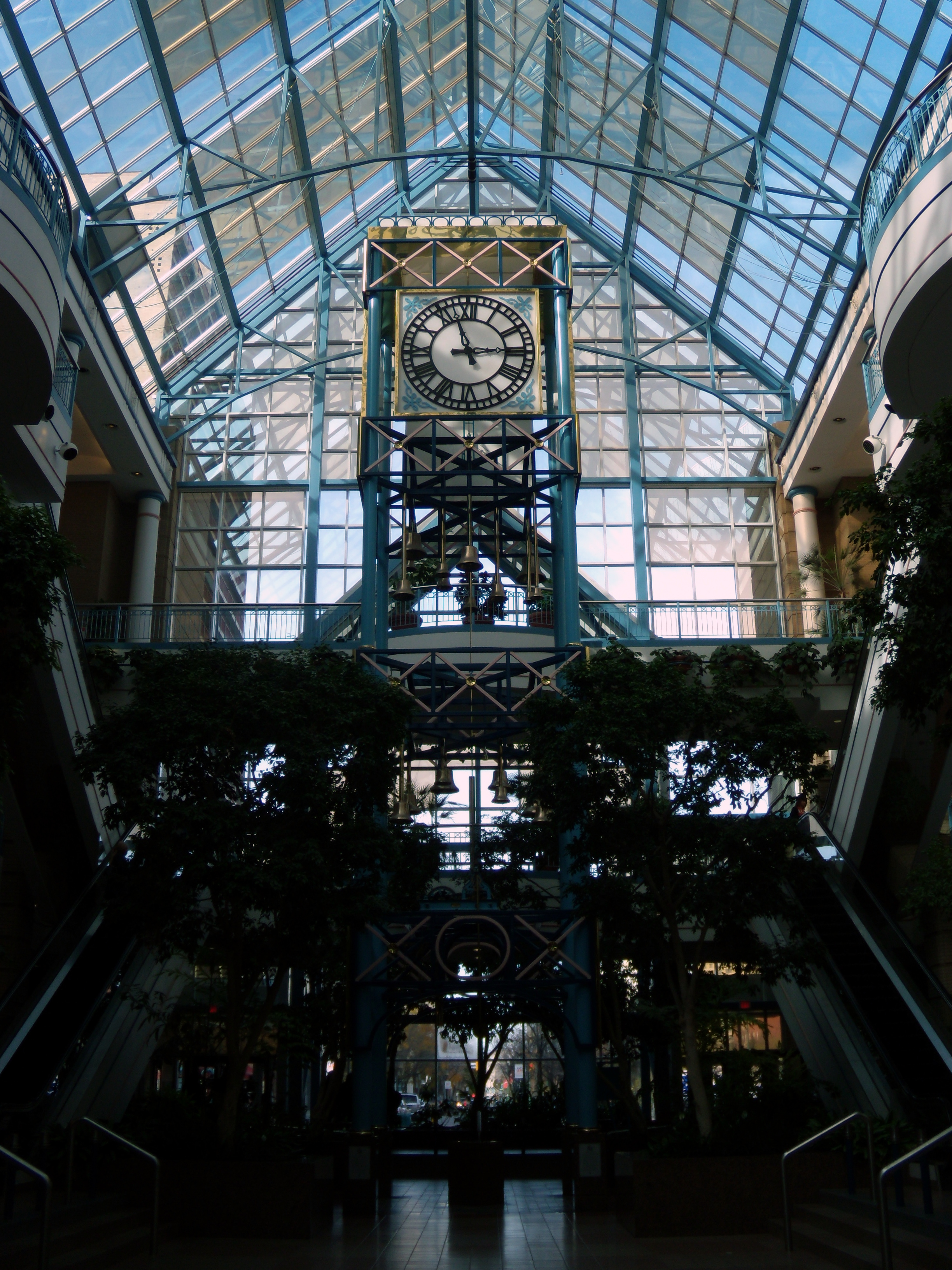 Clock in Portage Place shopping mall in downtown Winnipeg, Manitoba